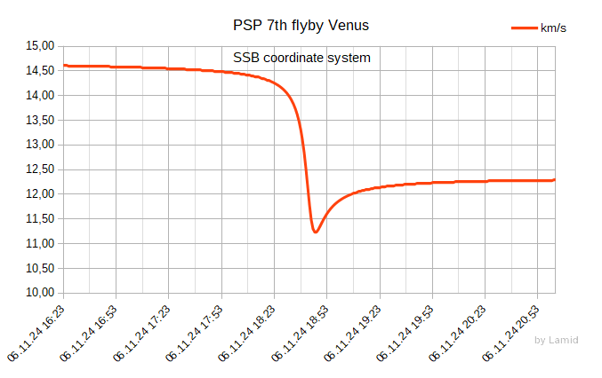 Velocity of the Parker Solar Probe at 7th flyby around Venus in Solar System Barycenter coordinates